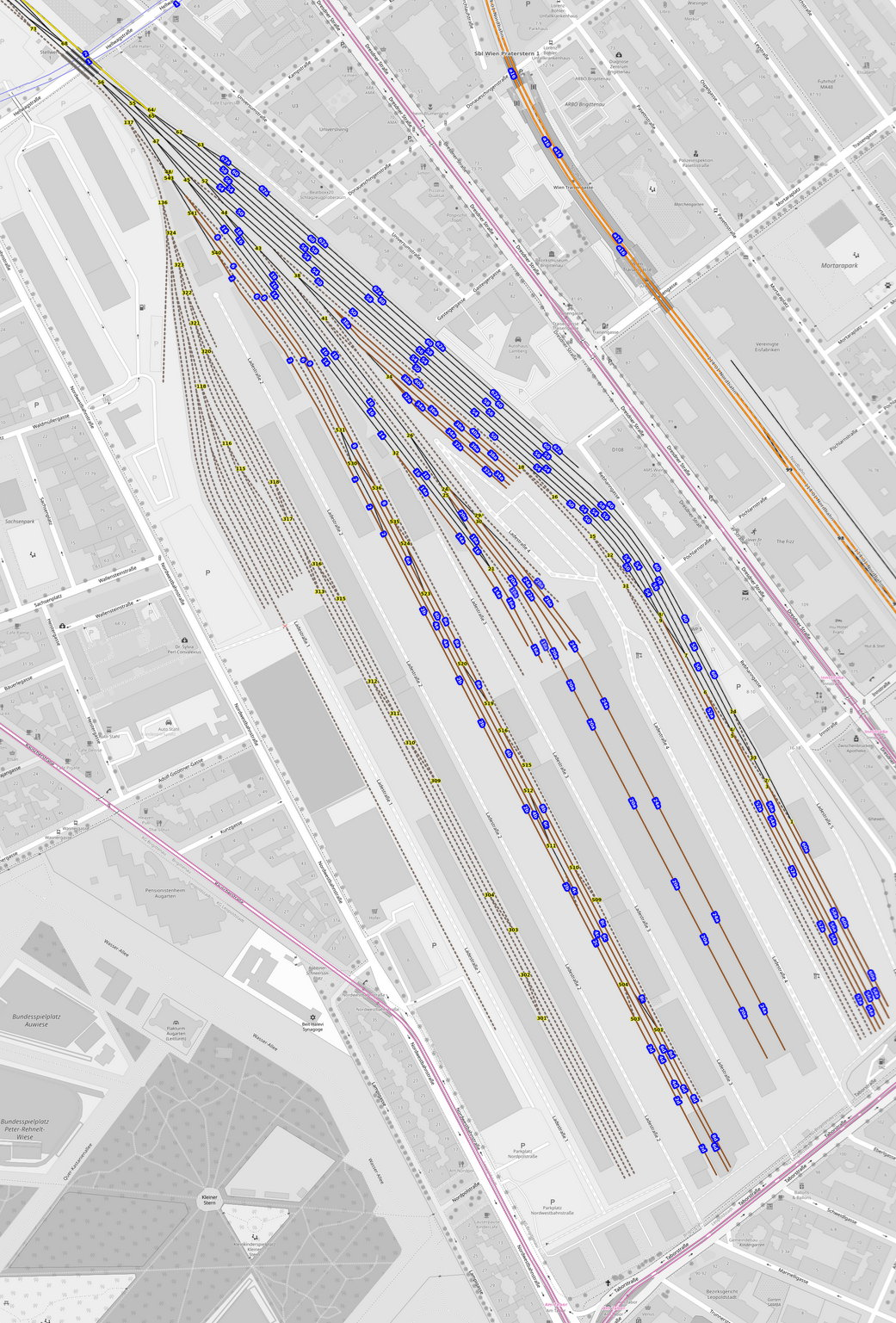 Nordwestbahnhof This map may be incomplete, and may contain errors. Don't rely solely on it for navigation.